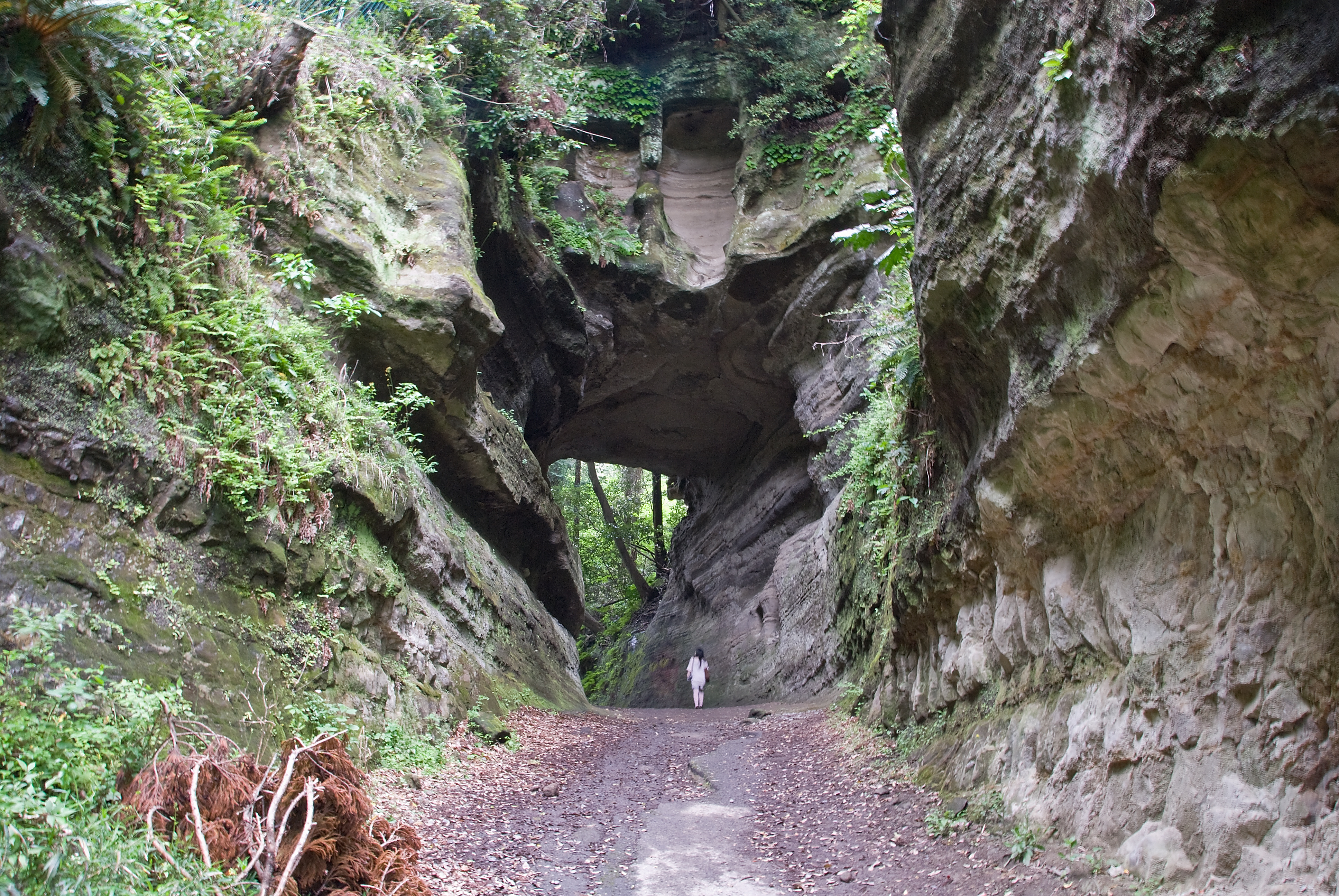 Shakadōguchi Pass, Kamakura. Not one of the Seven, but I include it anyway for lack of a better place.